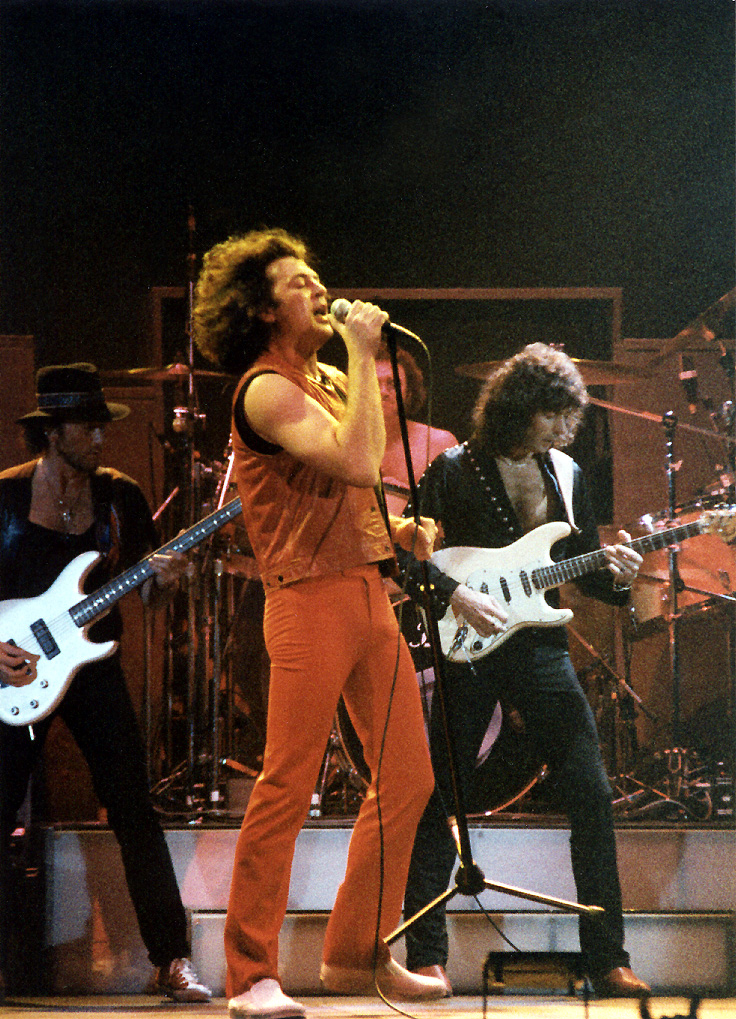 Deep Purple @ the Cow Palace, San Francisco, California. January 31, 1985. Canon AE-1, 80-200 Toyo lens, 1000 ASA.